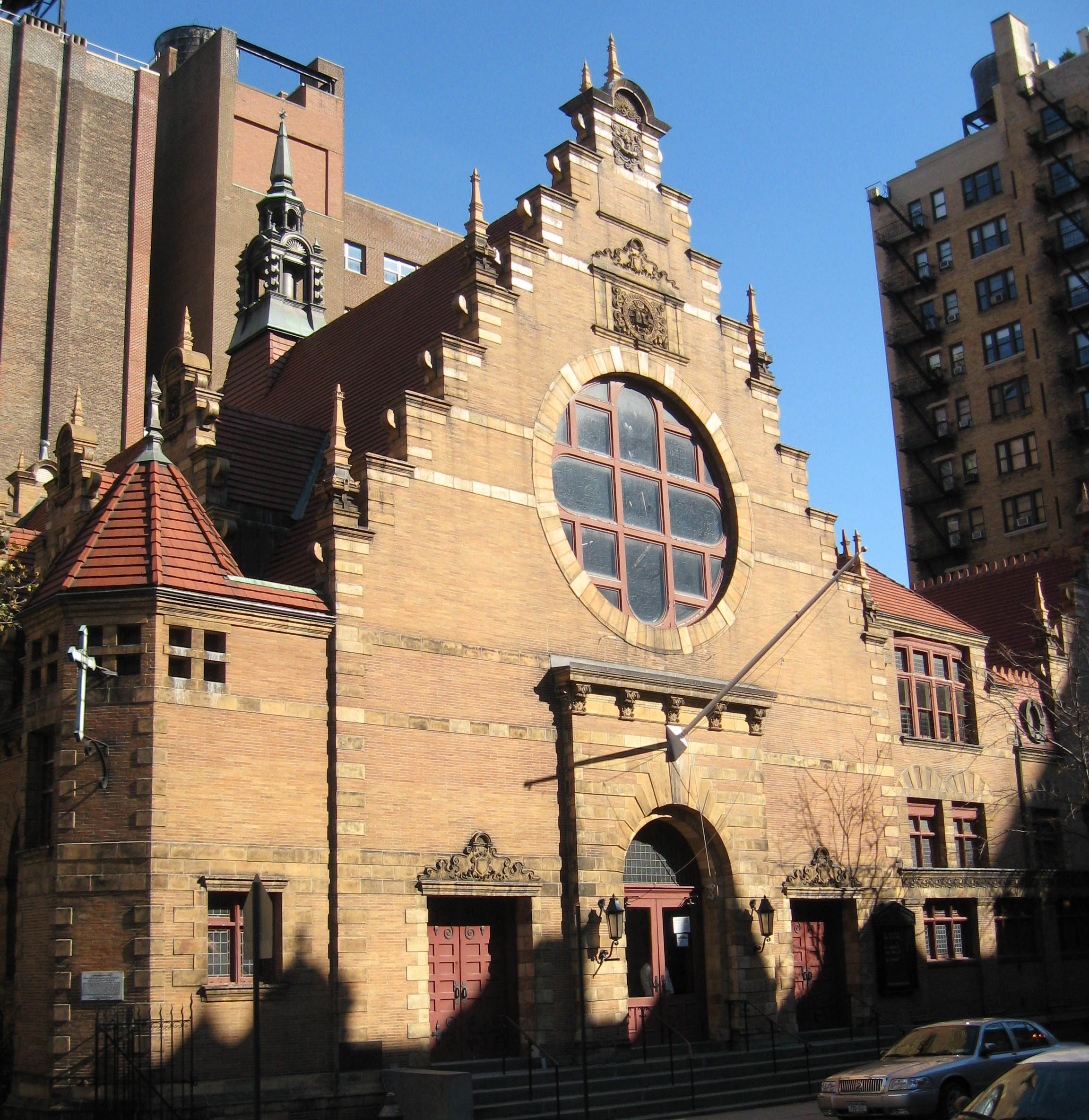 Looking northeast across 77th Street at West End Collegiate Church on a sunny day.